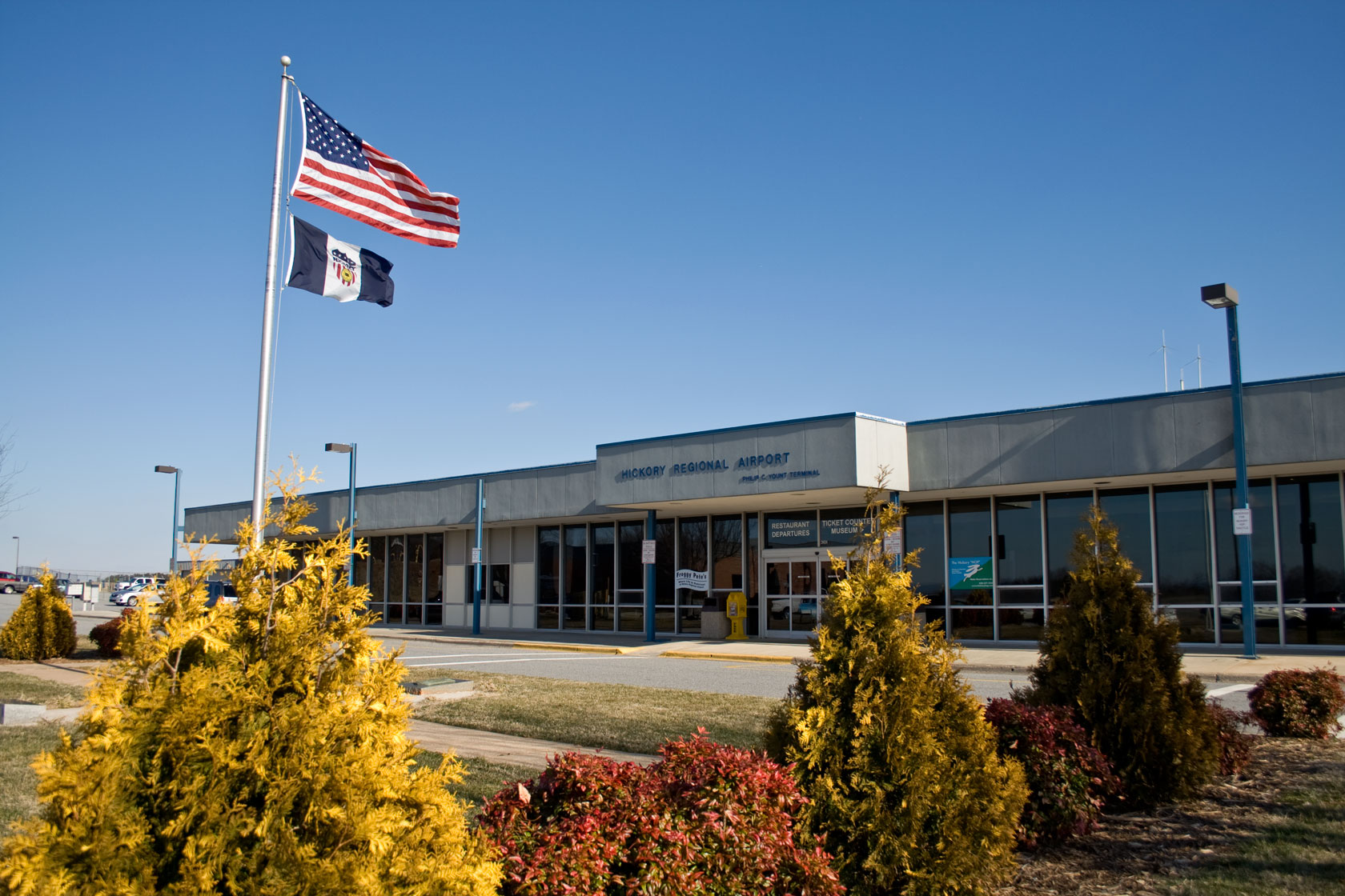 The Terminal building at the Hickory Regional Airport as seen from the parking lot.